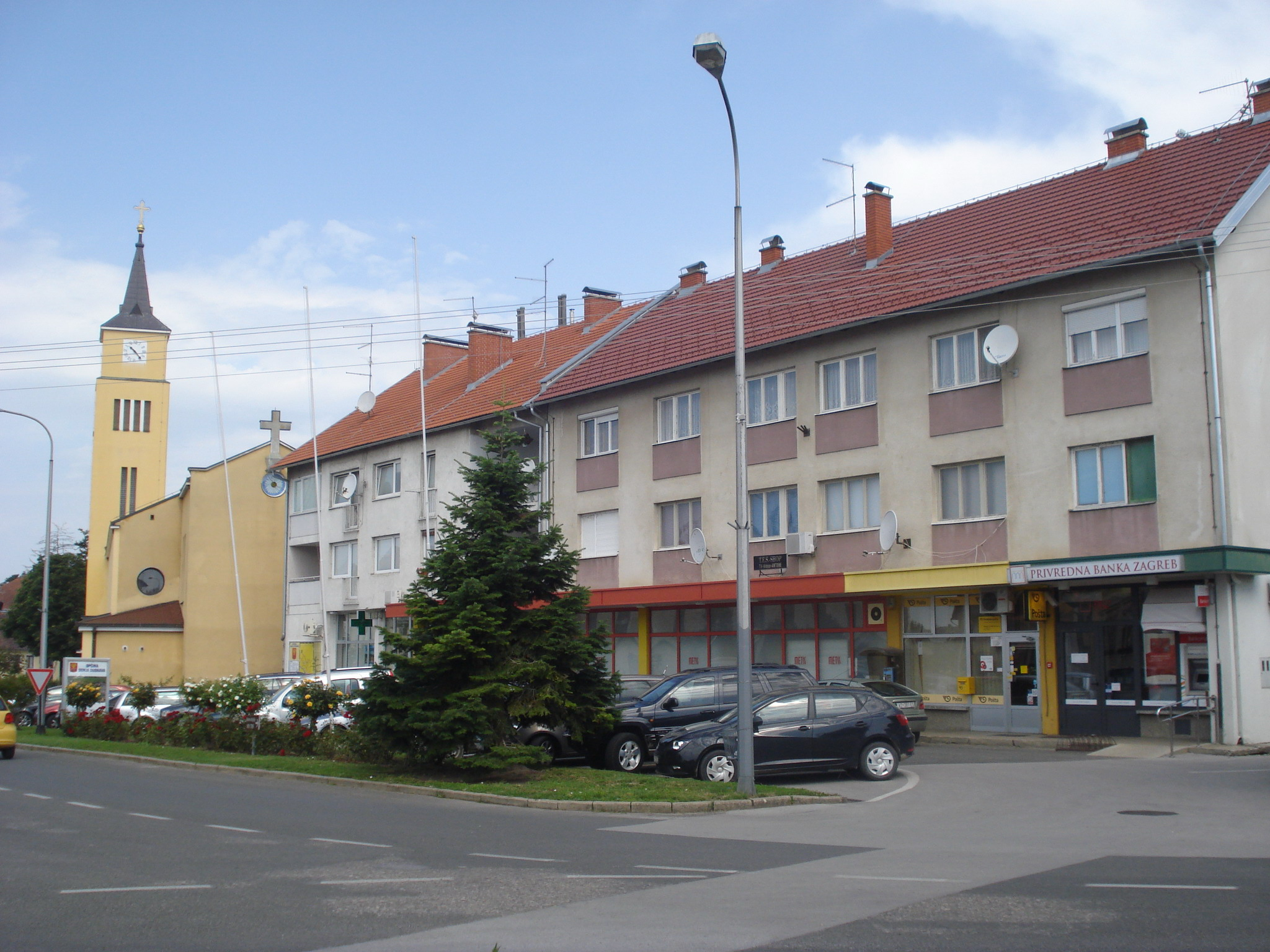 Donja Dubrava, Medjimurje County, Croatia - buildings in the village centre